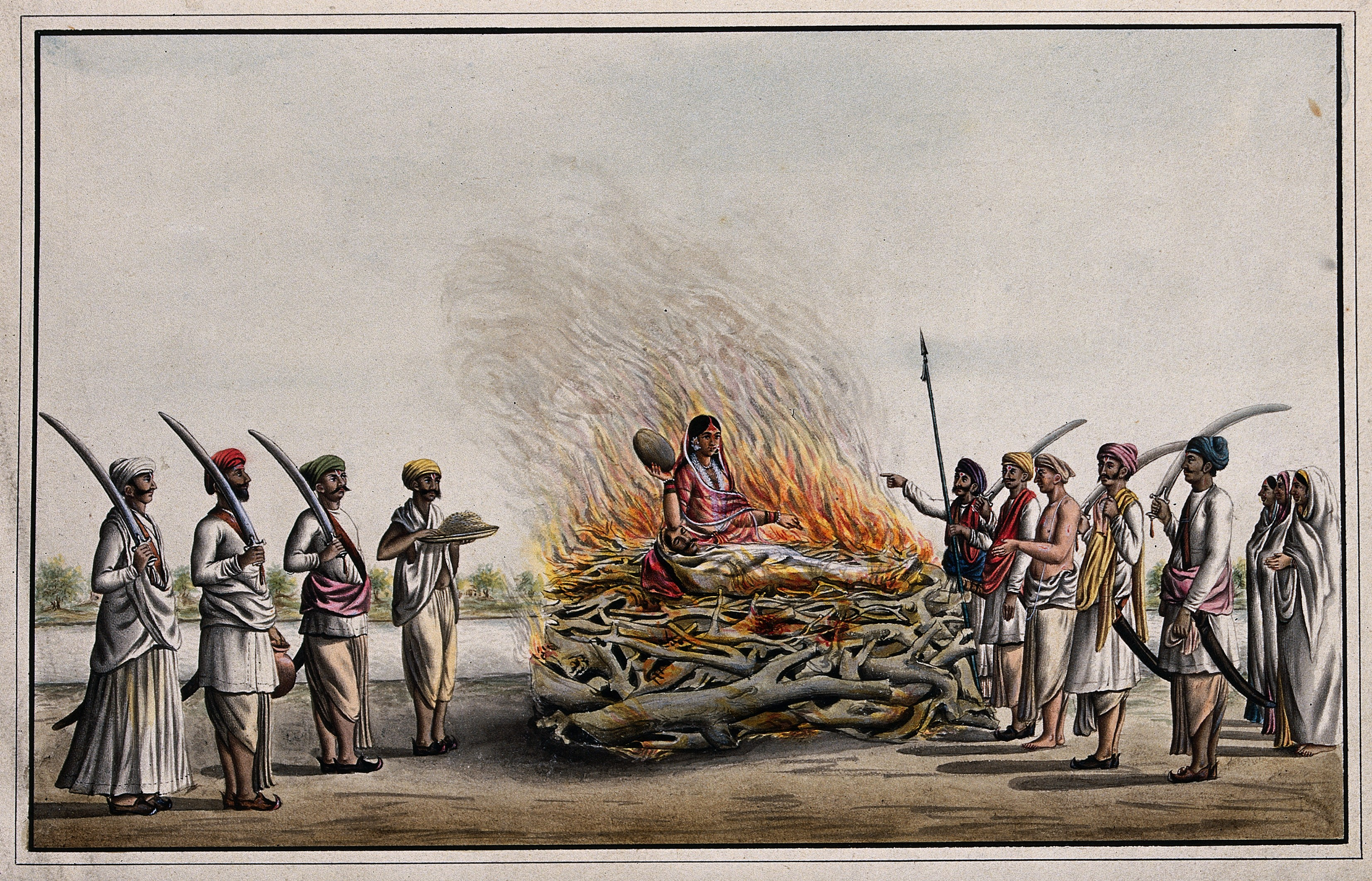 Suttee. Wife burning with her dead husband. Iconographic Collections